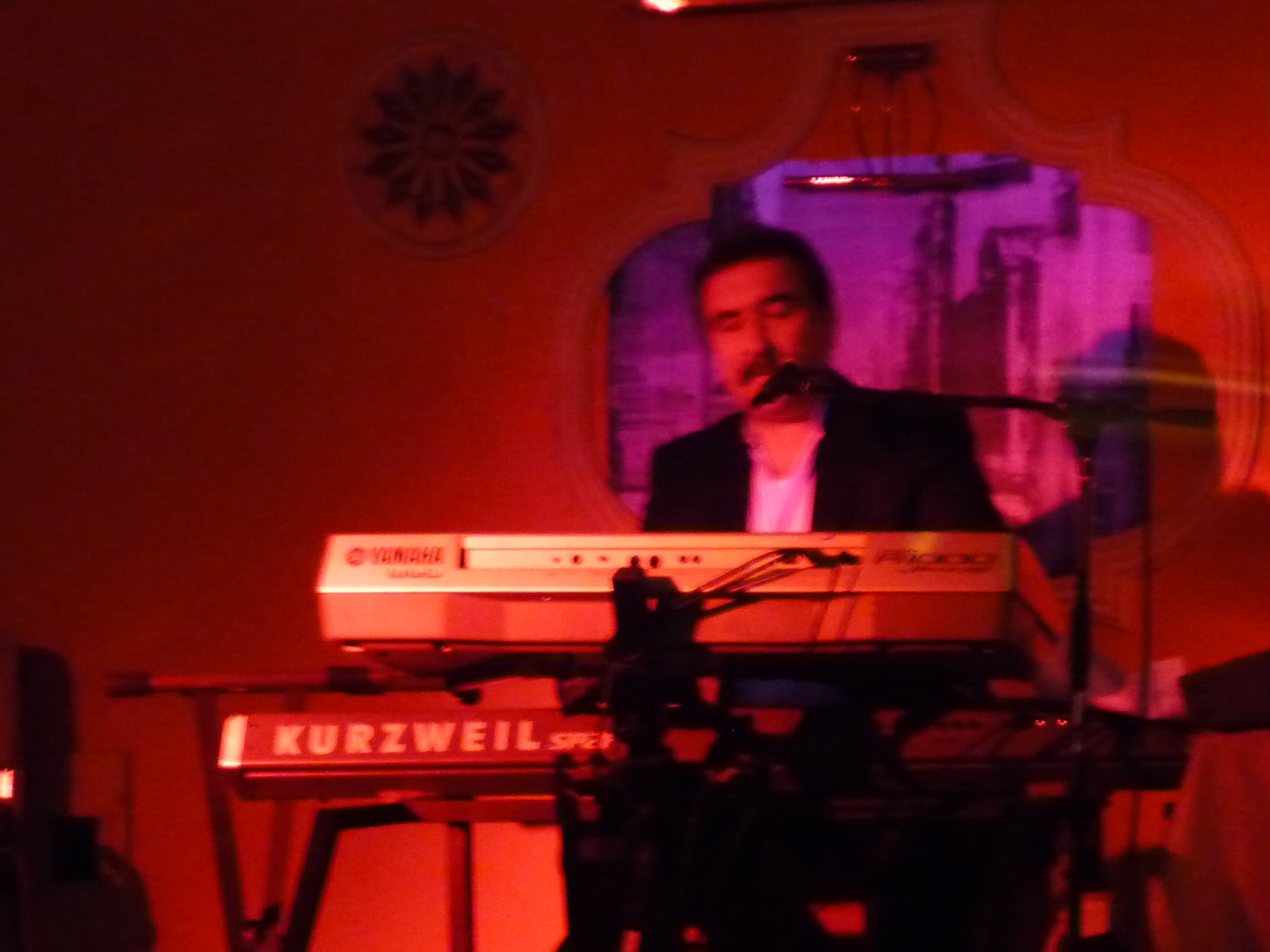 Photograph of Turkish musician Ümit Besen.